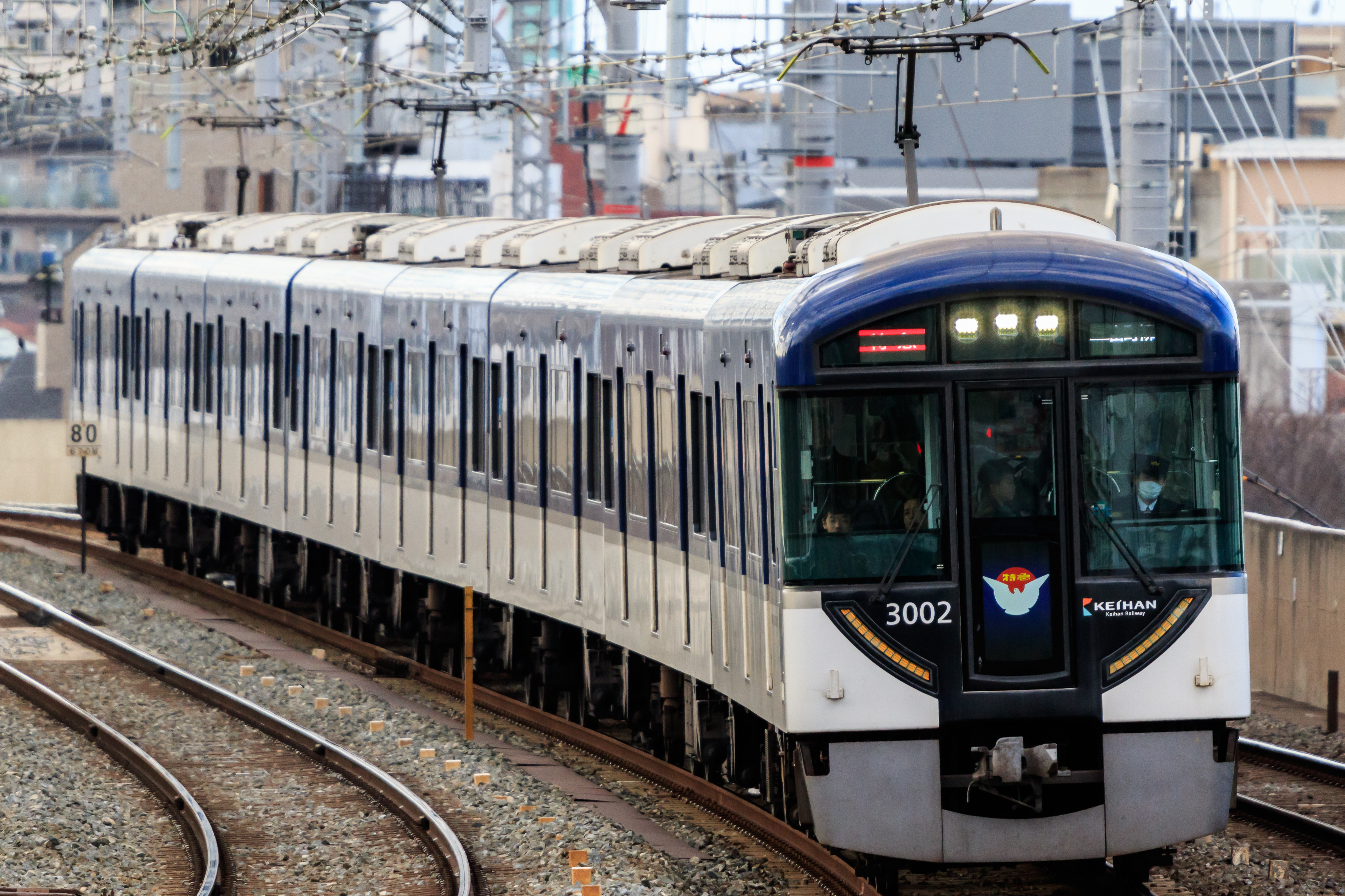 Keihan Electric Railway 3000 series EMU set 3002 approaching Nishisanso Station in Osaka Prefecture, Japan